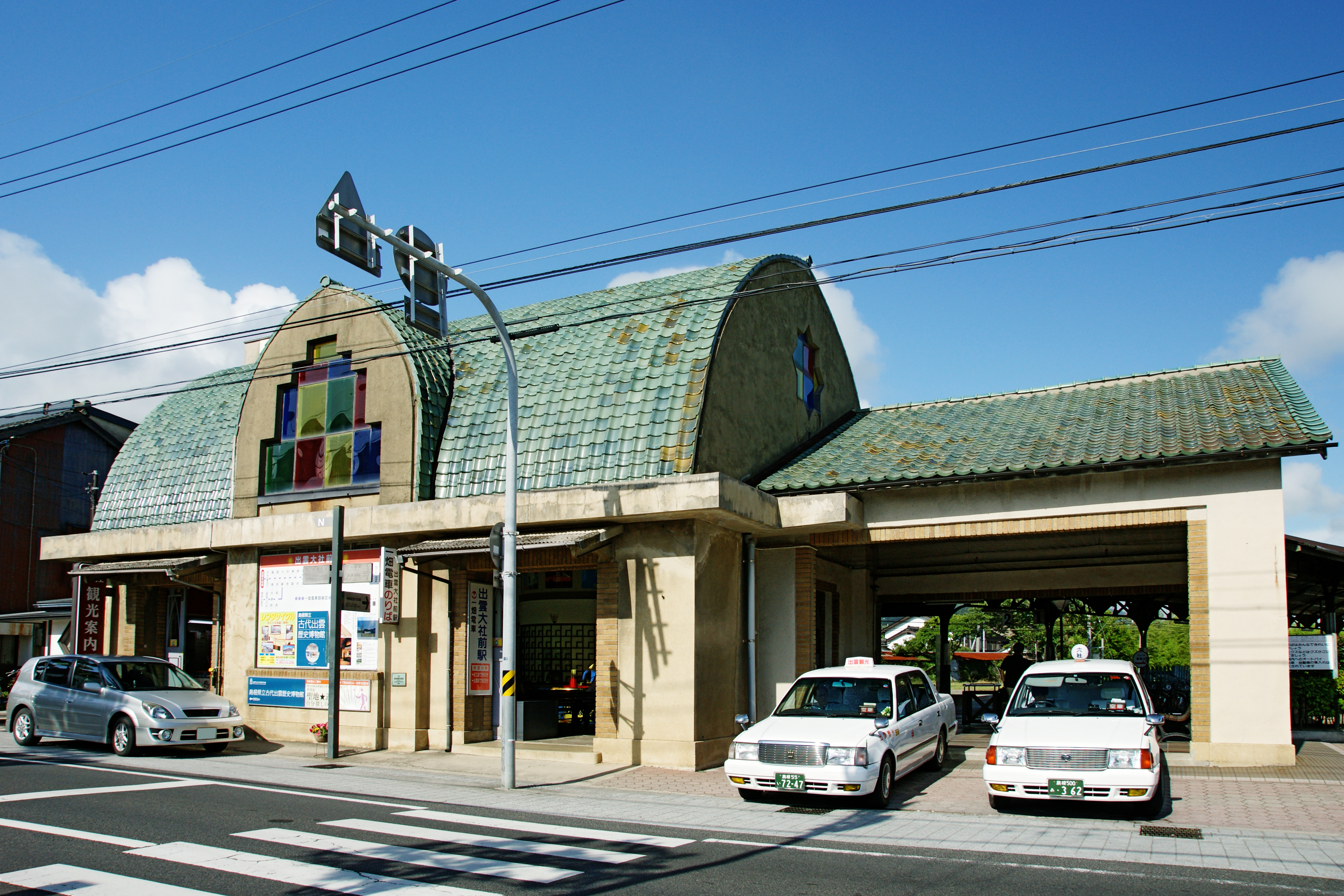 Izumo-taisha-mae Station in Izumo, Shimane prefecture, Japan